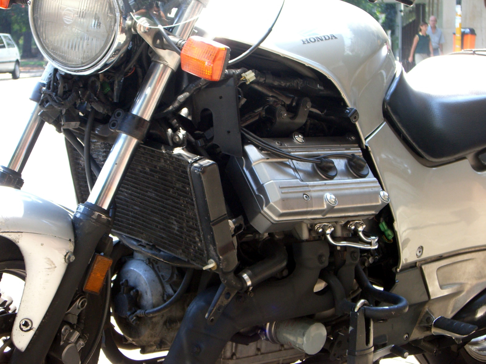 Honda ST1100 engine with the fairing removed